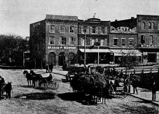 View of the Buck Hotel and downtown Asheville, North Carolina, in 1888. Photograph later republished in F. A. Sonley's "Asheville and Buncombe County," Asheville Citizen, 1922. Image courtesy of D. H. Ramsey Library, University of North Carolina at Asheville.